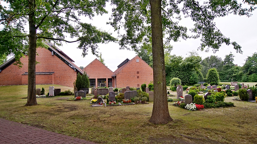 Moordeich Cemetery in Stuhr near Bremen (Lower Saxony), Germany, Chapel "House Behind the Dike"